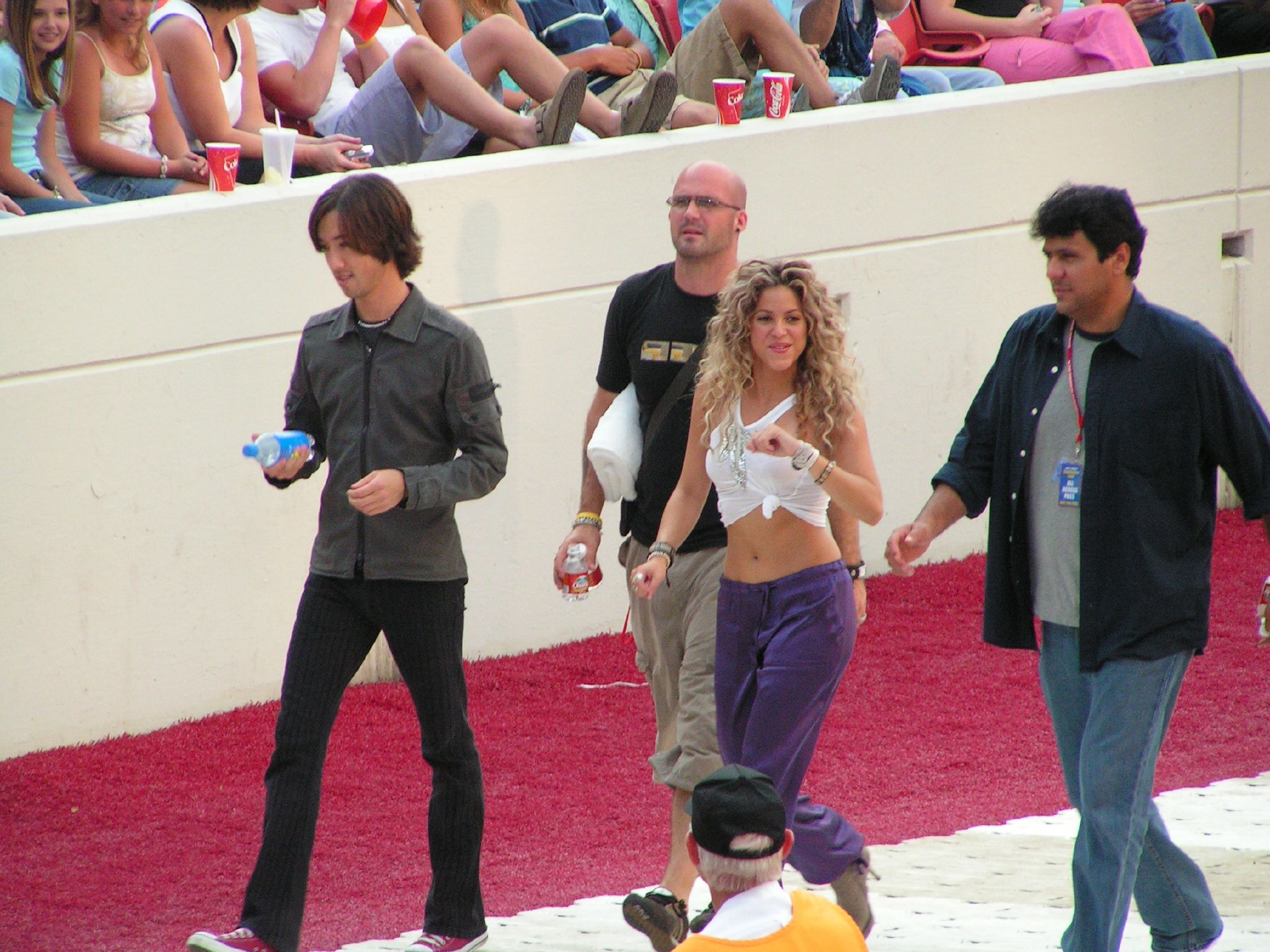 Comlombian singer Shakira at the Wall-Mart 2005 Shareholders meeting